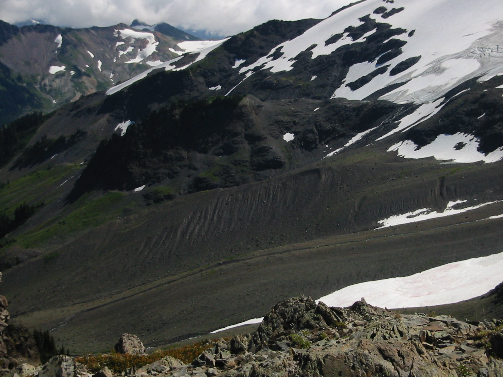 Moraine below Hadley Glacier (visible in the upper left corner). This large moraine indicates that the Hadley Glacier once extended hundreds of feet below its 2003 terminus at about 6200 feet.